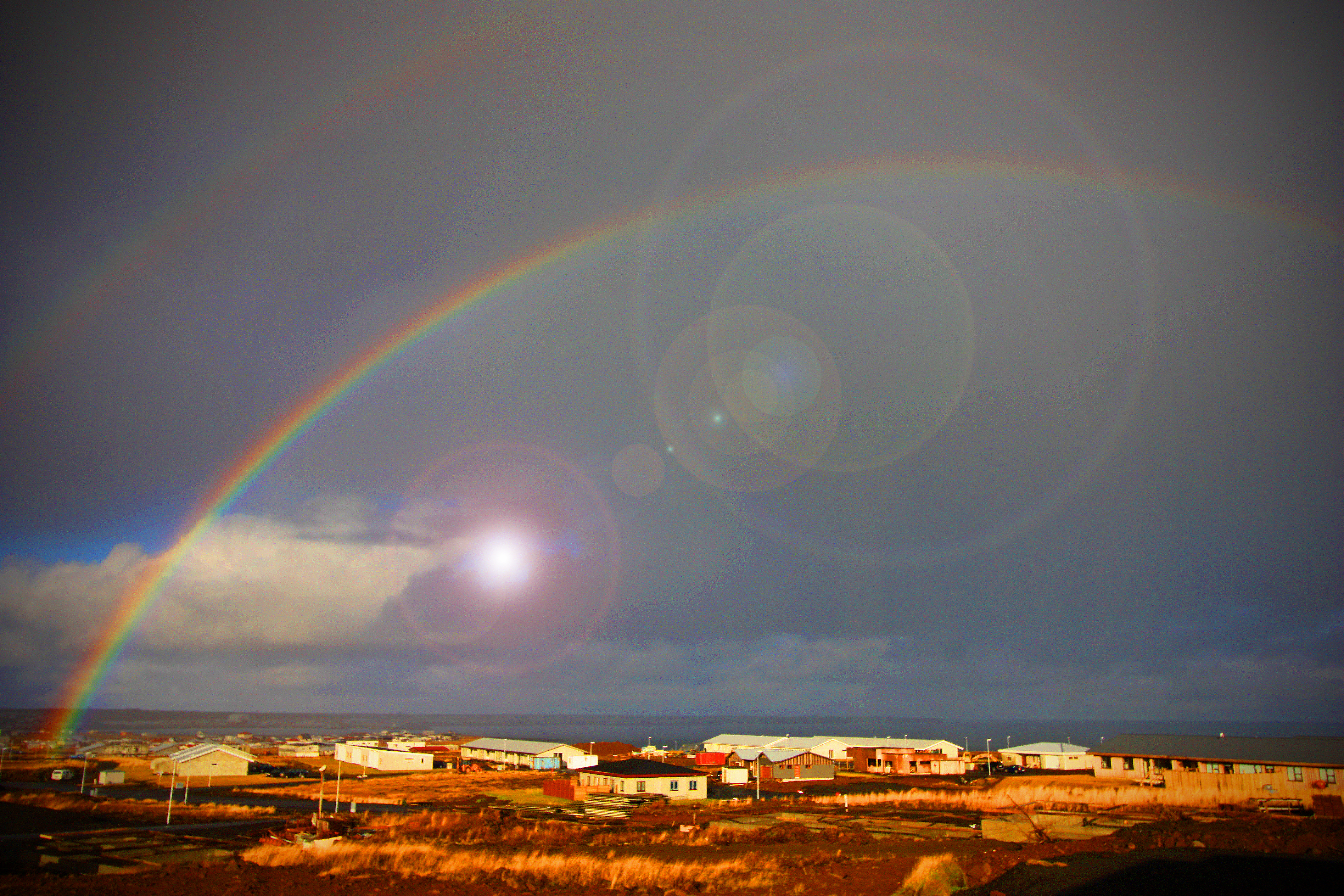 The beautiful view from Innri Njarðvík, Iceland.